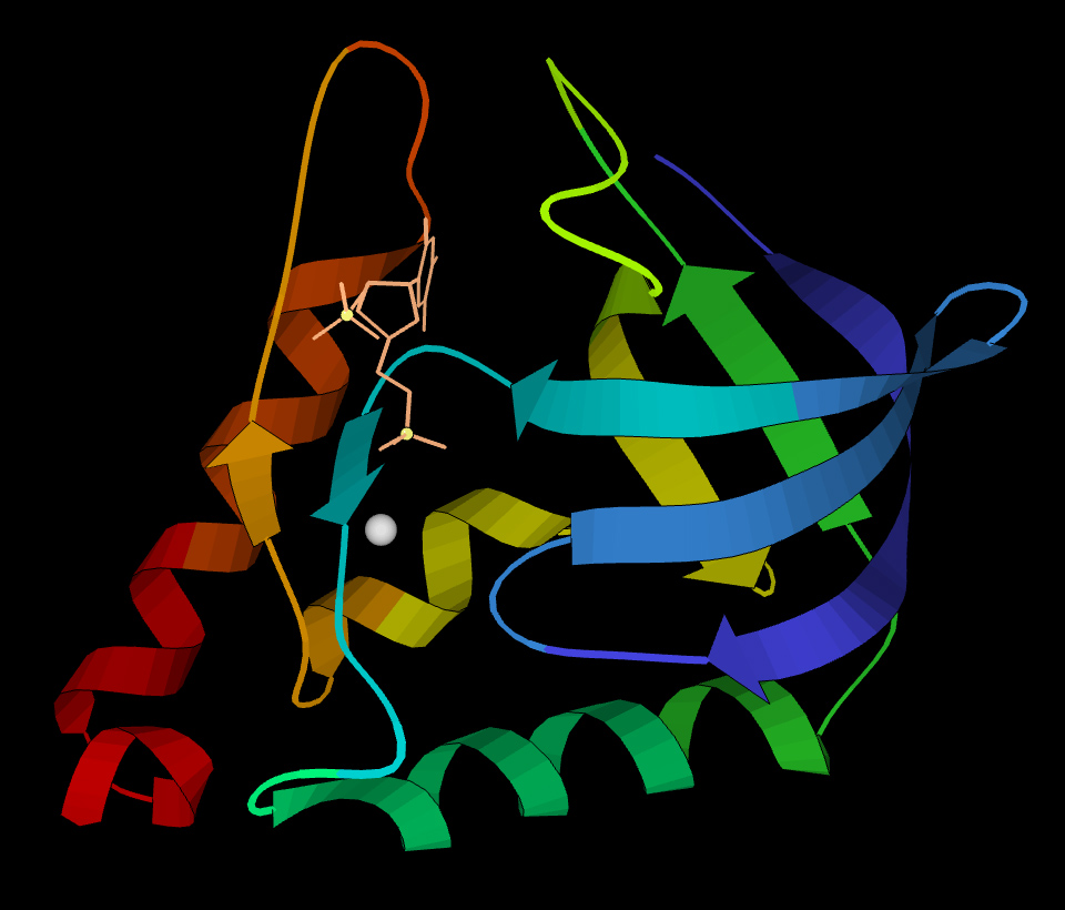 Ribbon schematic of the Staphylococcal nuclease enzyme structure, with bound Ca++ (white ball) and thymidine diphosphate inhibitor. Ribbons are colored from N-terminus (blue) to C-terminus (red); helices are spirals and beta-strands are arrows. From PDB file 3H6M, displayed in KiNG.